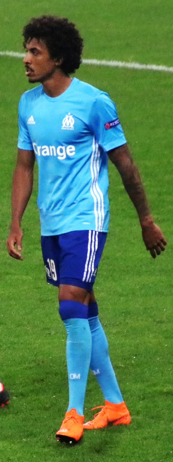 UEFA Euroleague semifinal 2nd leg